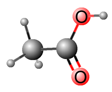 Summary Geometrie molekuly kyseliny octové CH3COOH Autor: Antonín Vítek, e-mail: avitek(at)lib(dot)cas(dot)cz Licensing